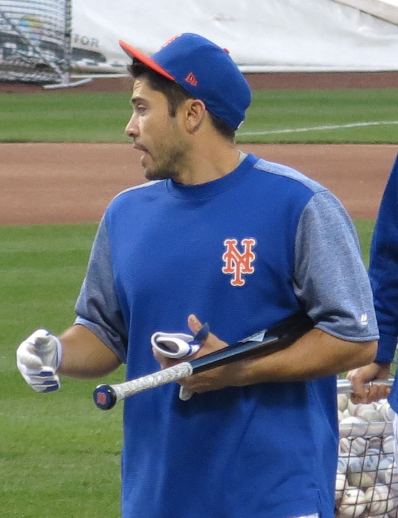 Travis d'Arnaud, Pat Roessler.